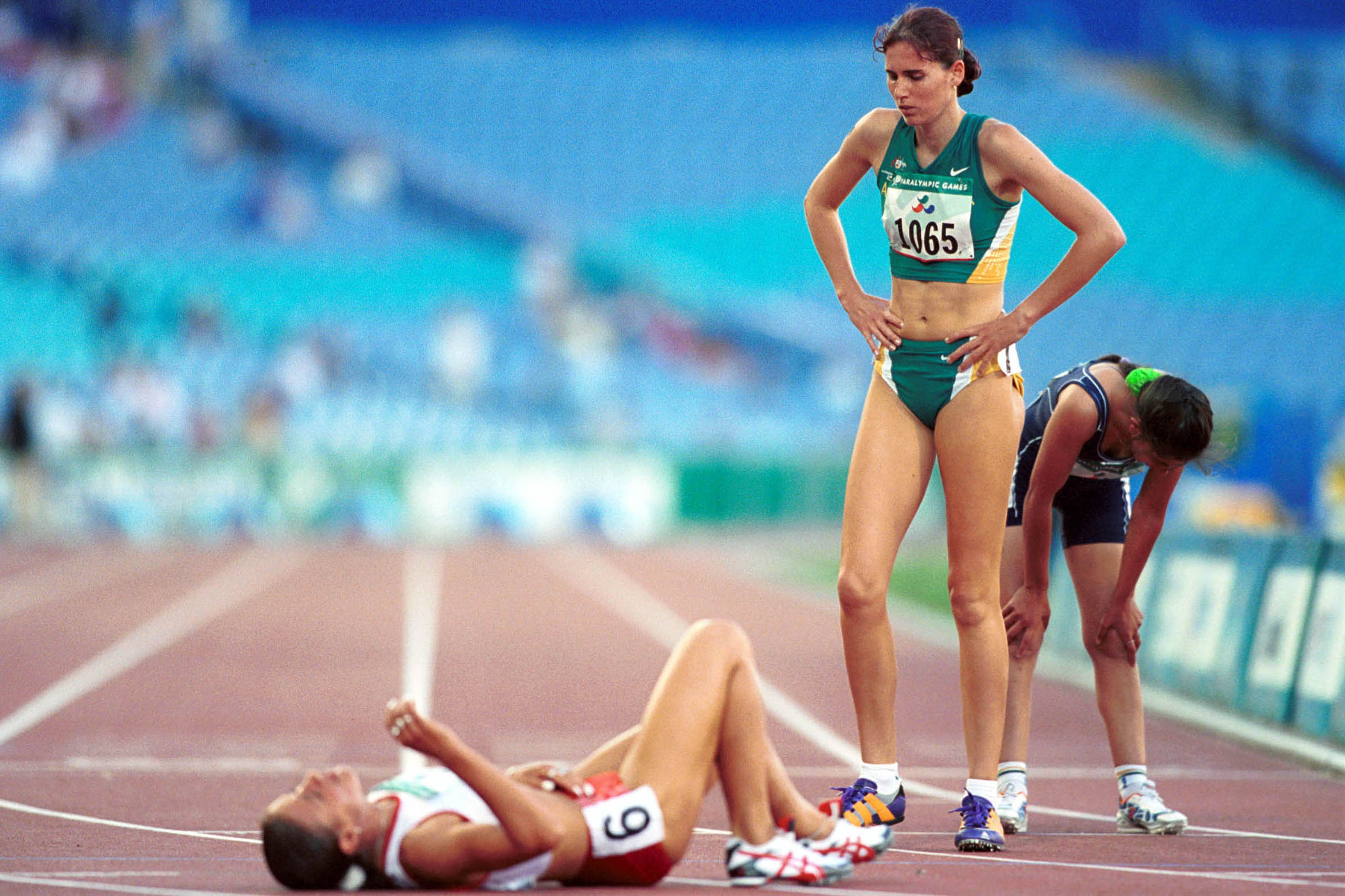 Australian track athlete Patricia Flavel looks on as other athletes collapse with exhaustion at the finish line, post race 2000 Sydney Paralympic Games